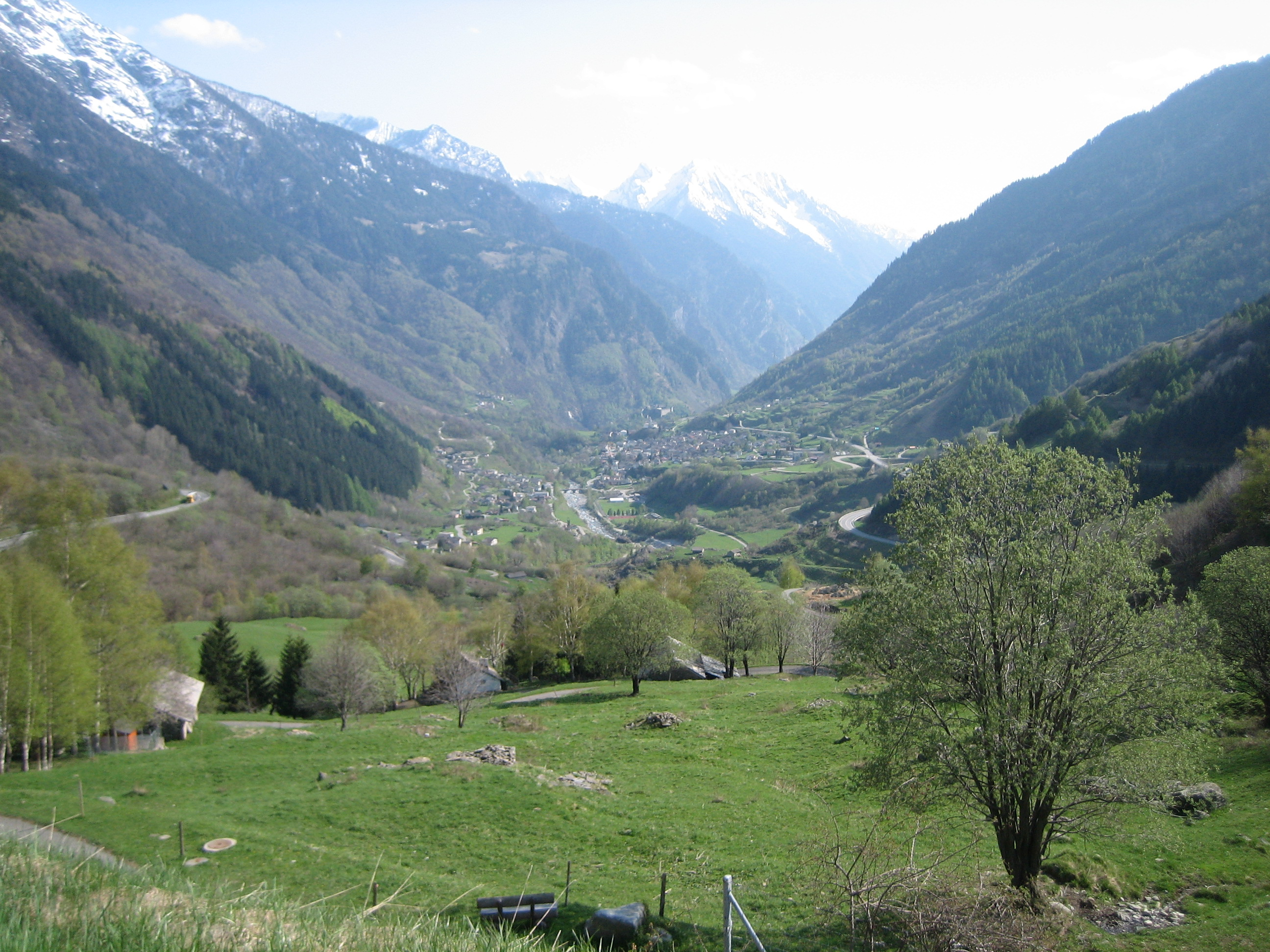 Das Misox mit Mesocco